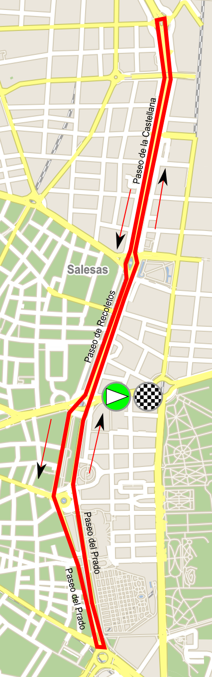 Circuit of stage 2 from La Madrid Challenge by La Vuelta 2018